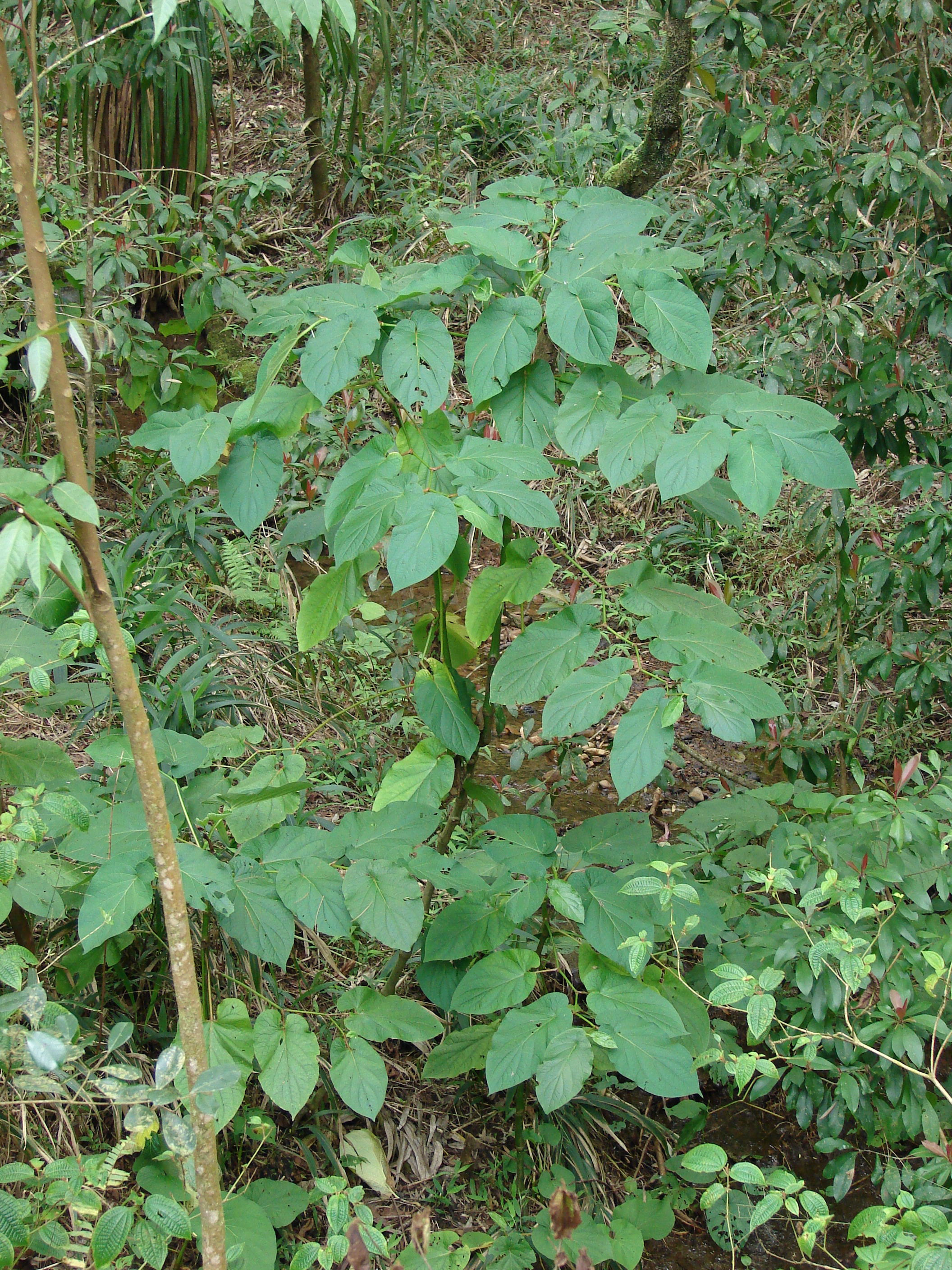 Piper auritum (habit). Location: Maui, Hana Hwy